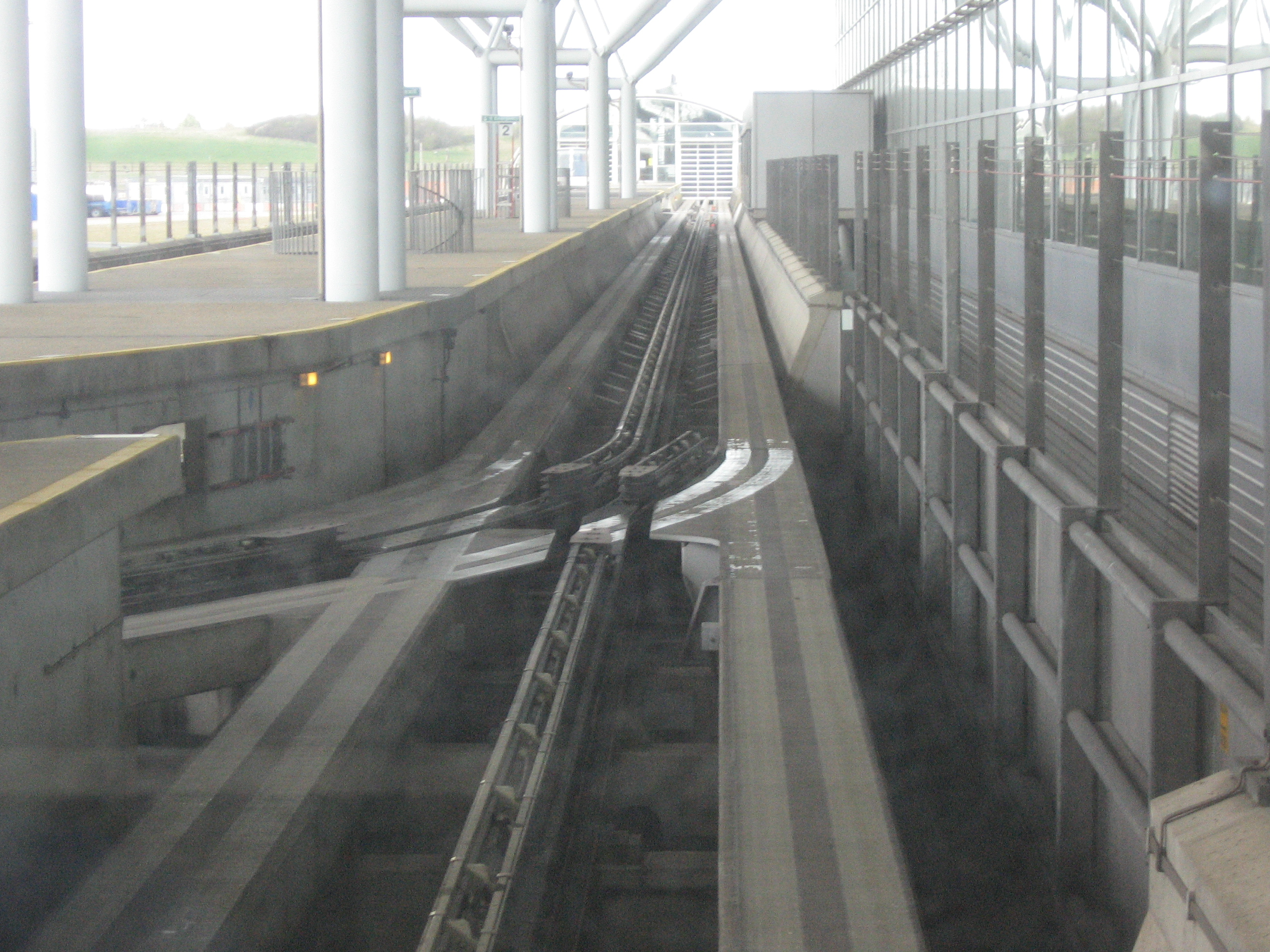 London Stansted people mover rail switch.